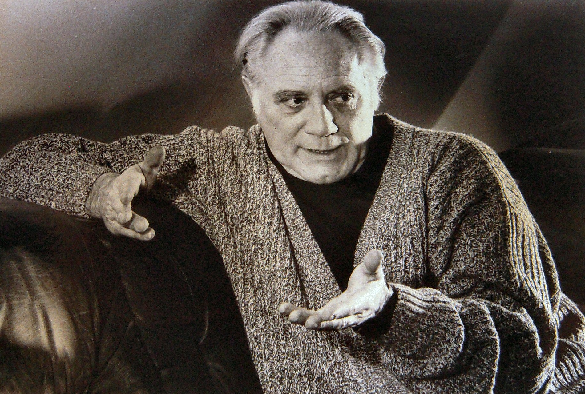 August Puig Bosch